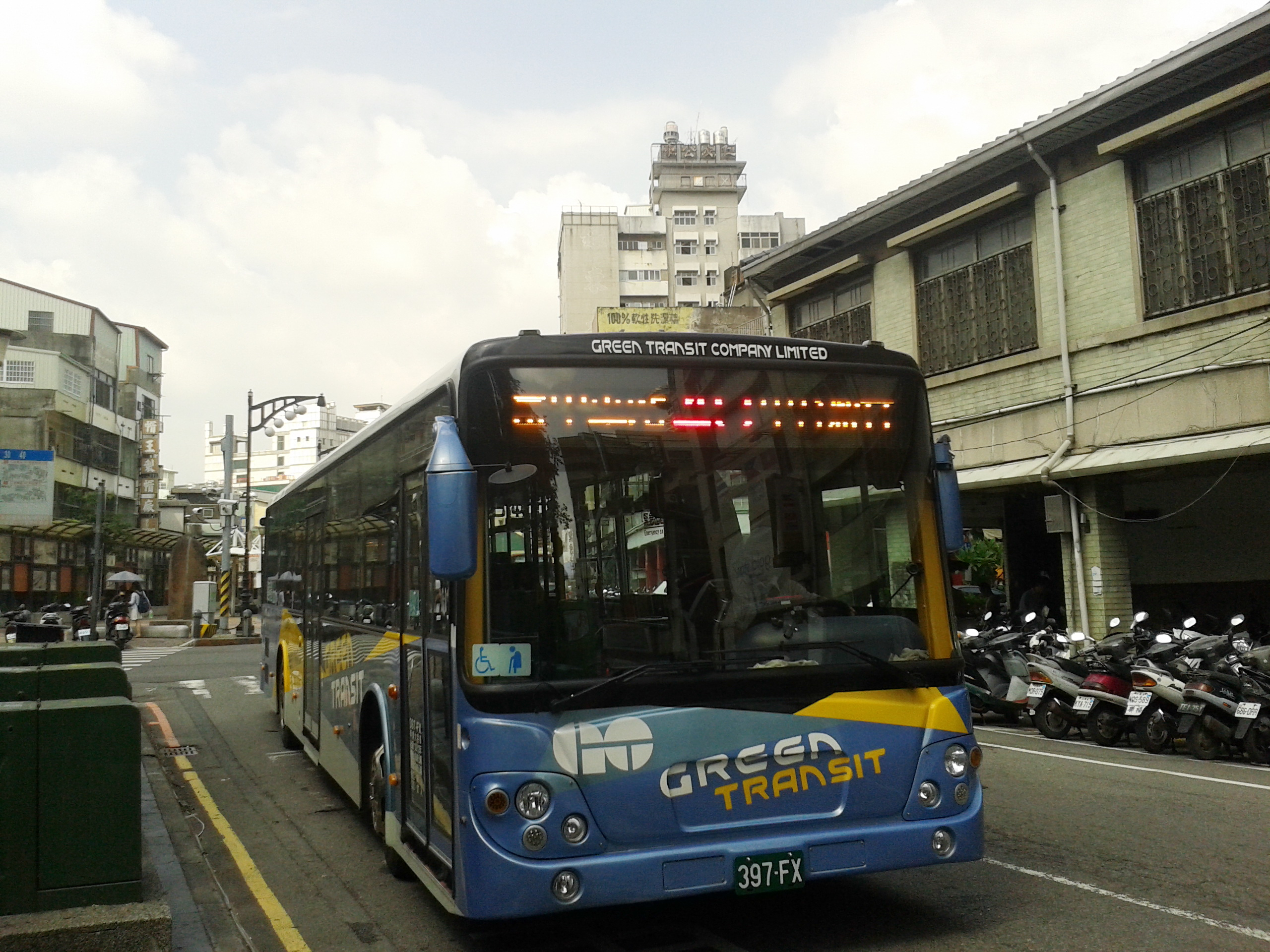 Daewoo BS120CN step entrance bus 397-FX of Green Transit on Taichung City Bus Route 40.